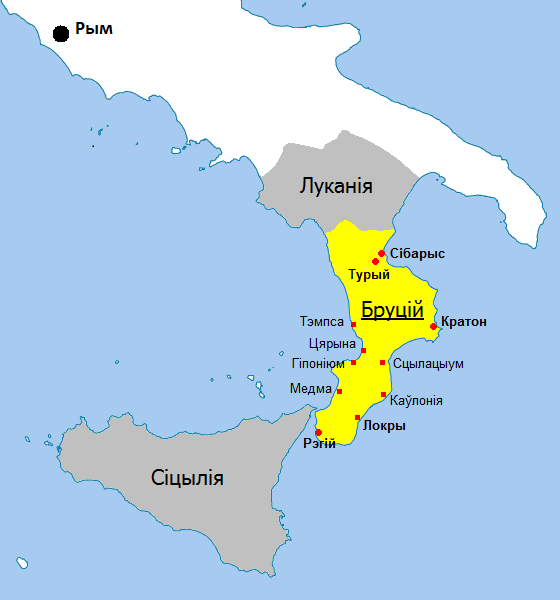 Map of Bruttium area